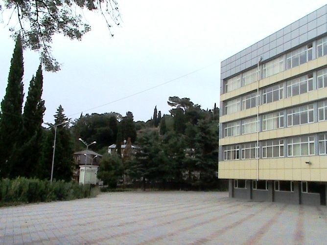 School of the Future today